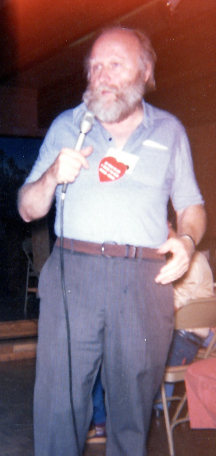 Frank Herbert (science fiction writer) at Octocon science fiction convention at the El Rancho Tropicana hotel in Santa Rosa, California, October 1978